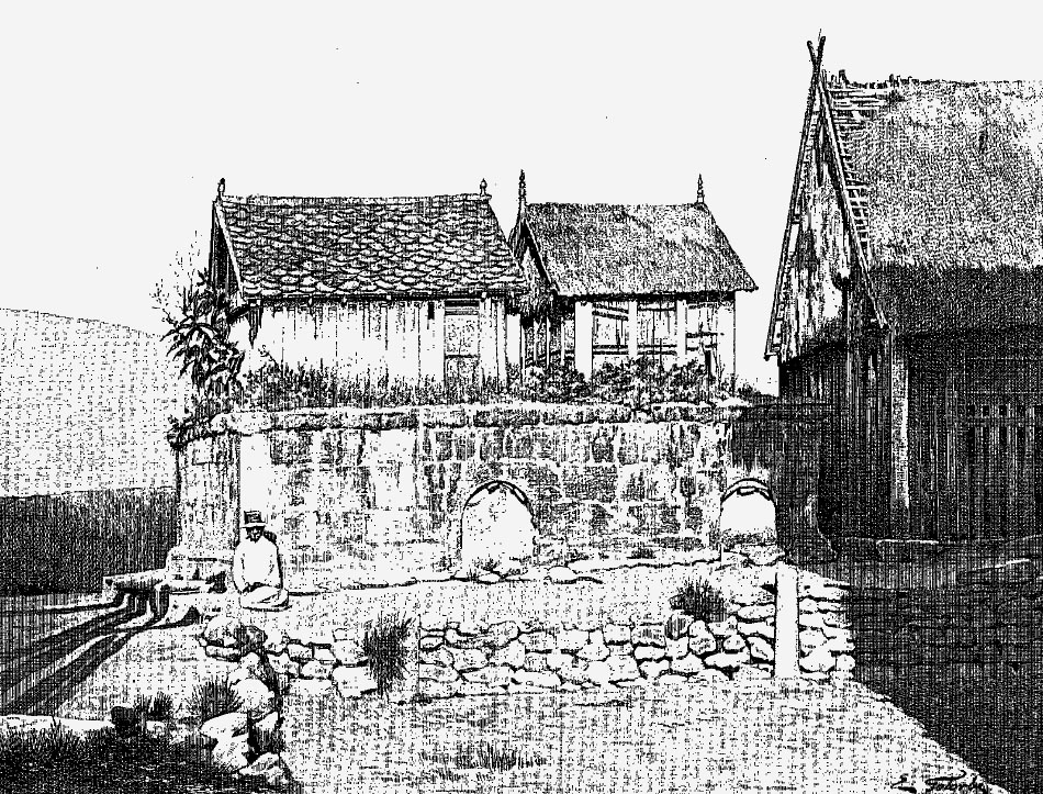 Antimerina (Merina) graves with tranomasina, Madagascar